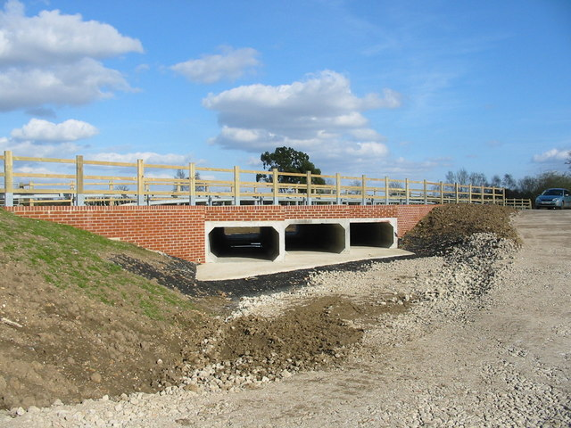 Culvert on Fordingbridge to Alderholt Road This new culvert is part of a recent £4m flood prevention scheme around Fordingbridge.